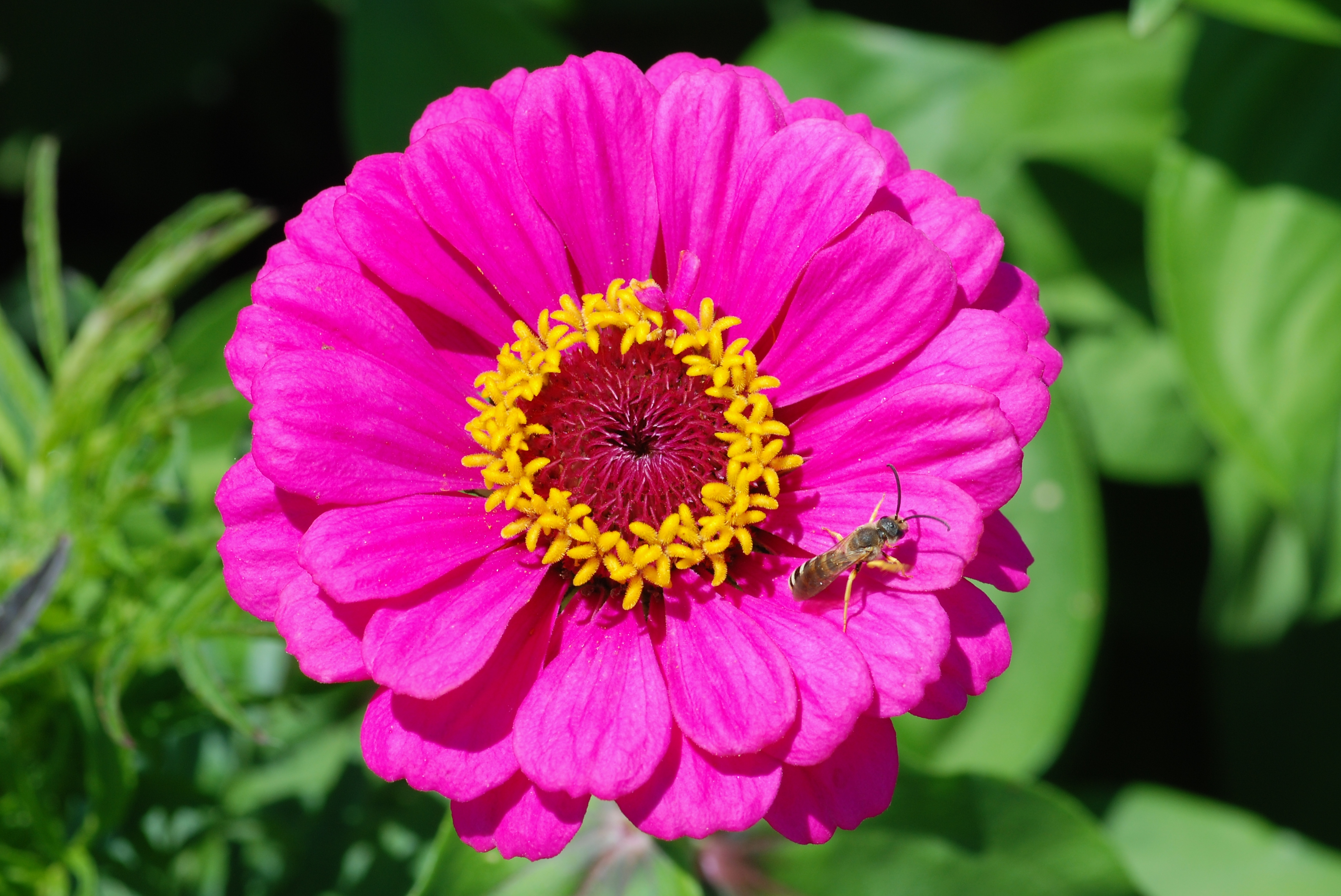 Zinnia elegans with wasp